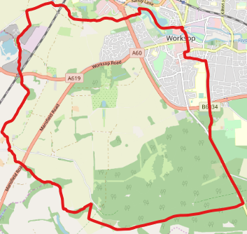 Map of the Worksop South ward of Bassetlaw. This map may be incomplete, and may contain errors. Don't rely solely on it for navigation.